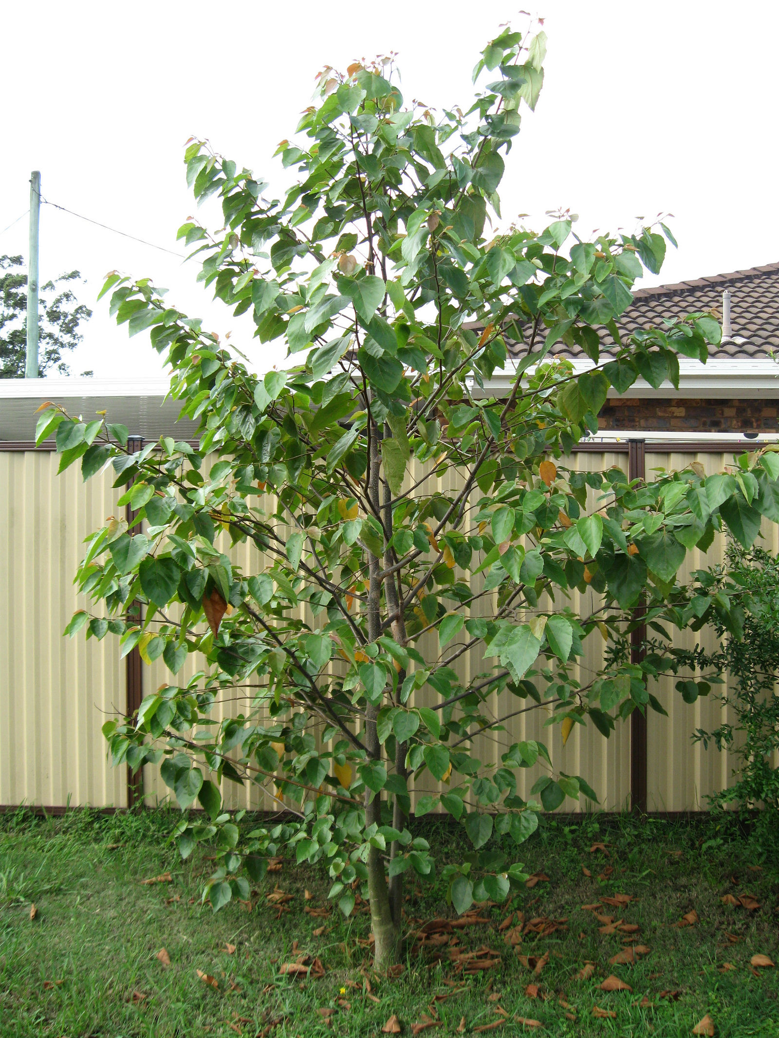 Photograph of a Brown Kurrajong (Commersonia bartramia) growing in my backyard.